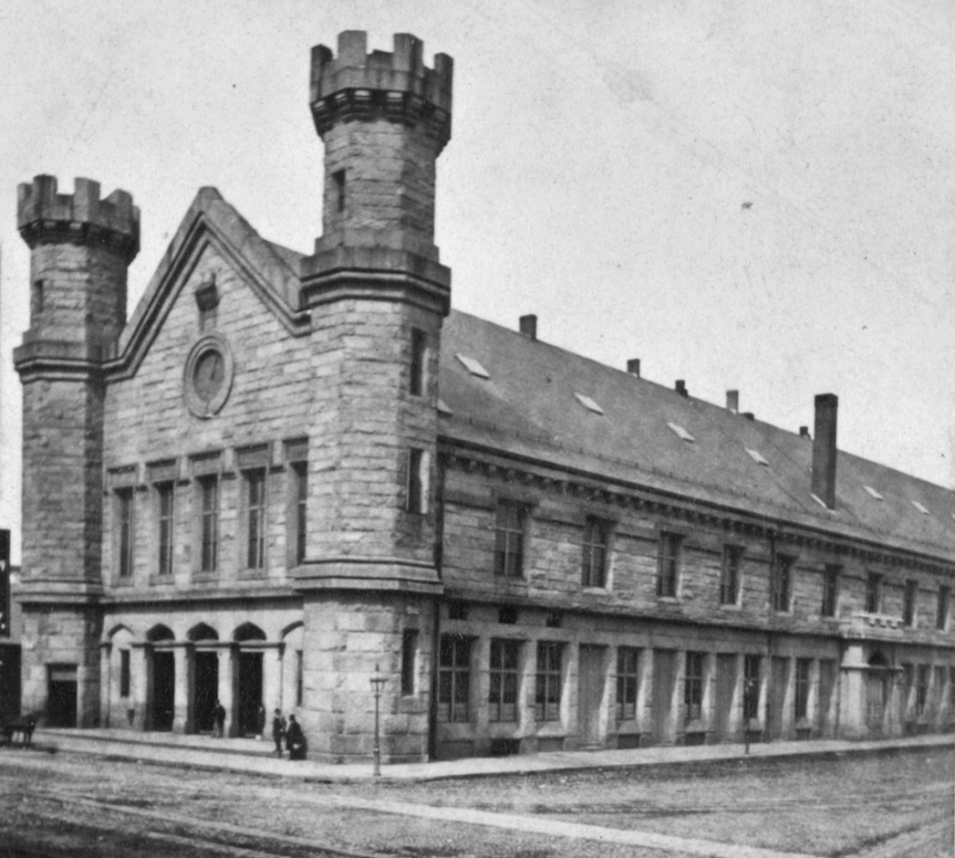 The Fitchburg Railroad terminal in Boston, likely in the 1870s. The image has been cropped from a stereo card, with some sky areas computer-generated to fill in rounded corners.